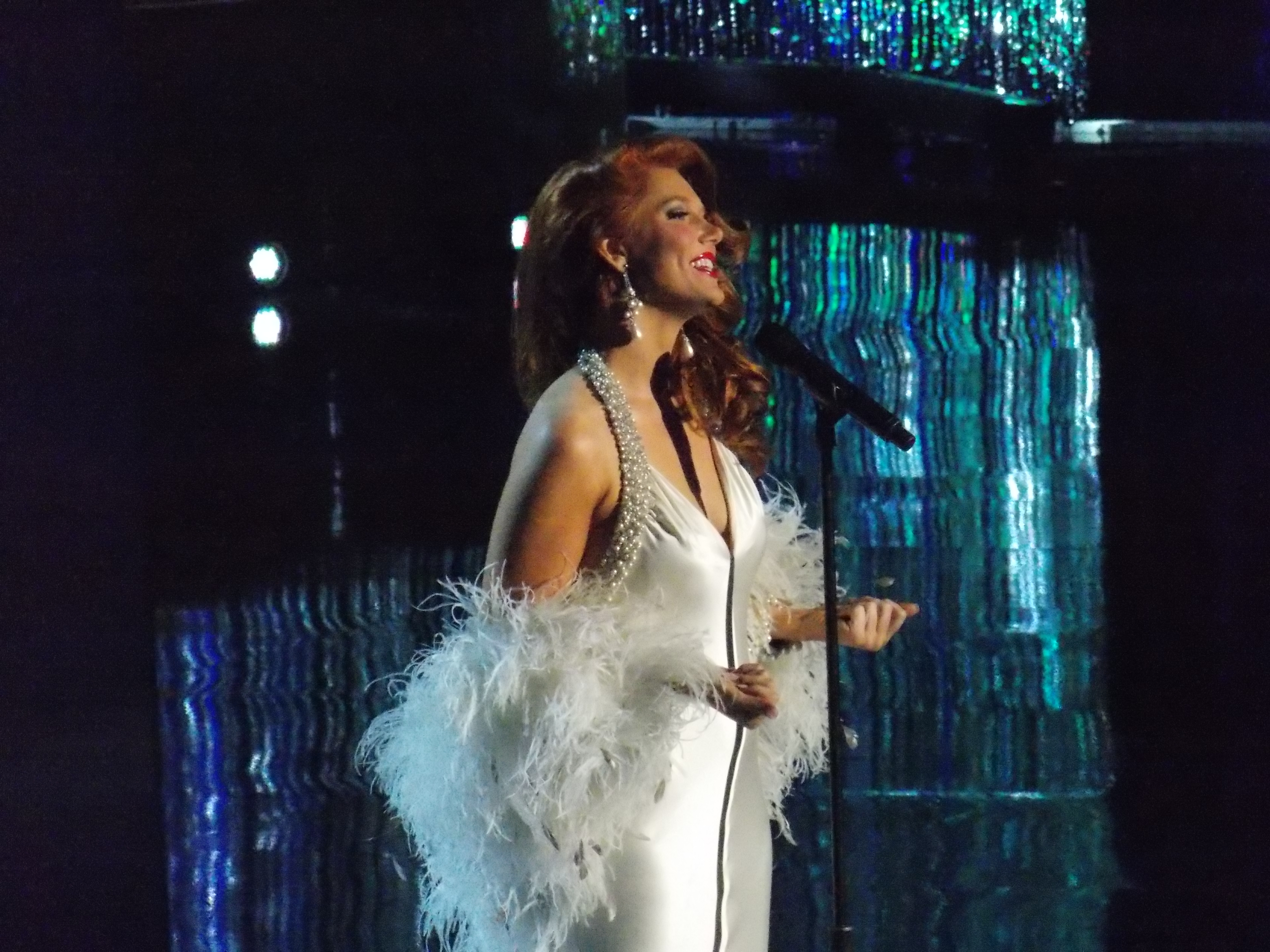 Haely Jardas, Miss District of Columbia, sings her rendition of "Blank Space" by Taylor Swift, at the preliminaries of Miss America 2016.